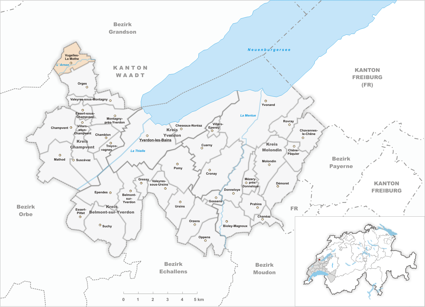 Municipality Vugelles-La Mothe